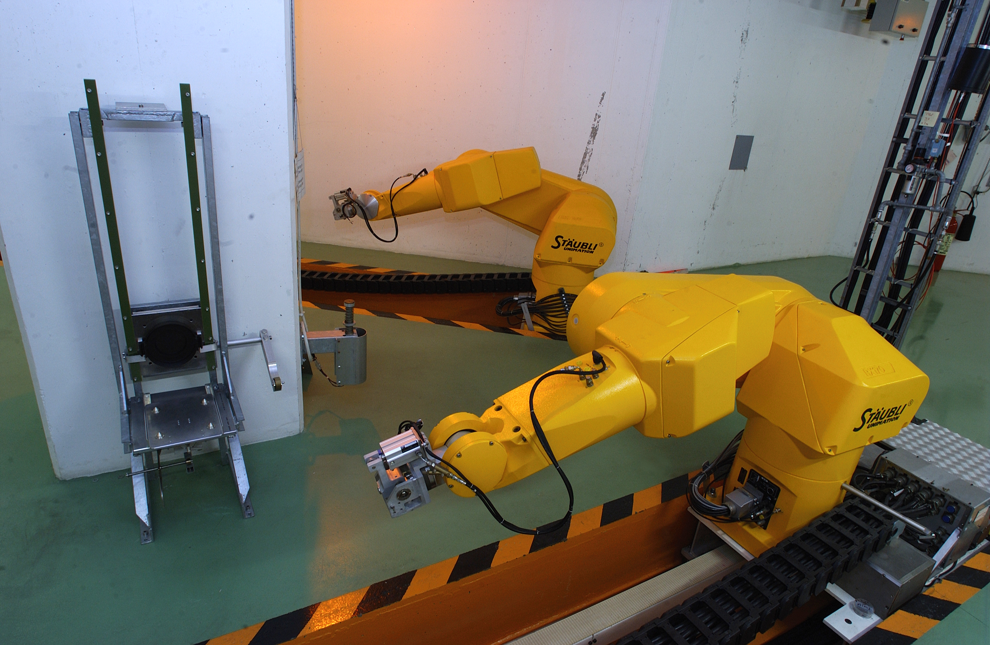 Industrial robots which once used in ISOLDE facility to manipulate targets with high levels of radiation.